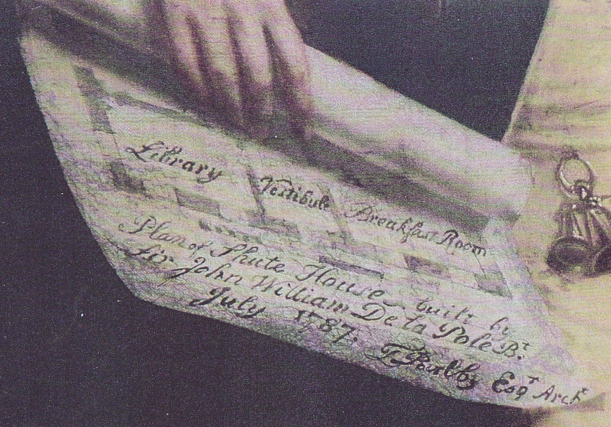 Detail from: Sir John de la Pole, 6th Baronet (1757-1799), in the library of New Shute House, Devon, built by him between 1787-89, holding a plan of his new house in his right hand, with a view of the Doric portico through the window. Portrait by Thomas Beach, collection of Sir Richard Carew-Pole, Antony House, Cornwall. The scroll of paper reveals the name of the architect of New Shute House as Thomas Parlby Esquire